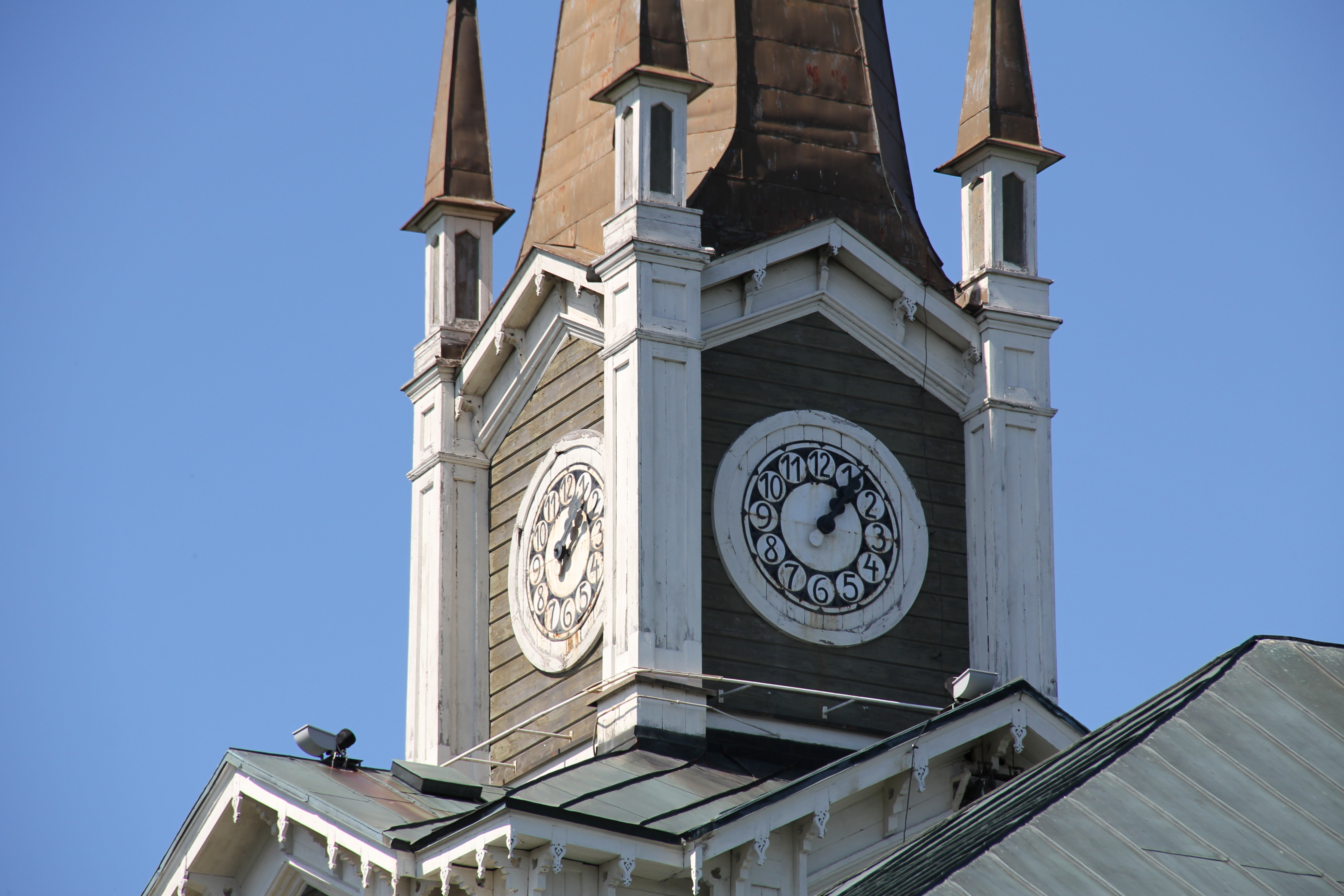 Urjala church, Urjala, Finland. Originally designed by Martti Tolpo, modifications in 1869 designed by architect Carl Albert Edelfelt. Completed in 1806. - Clock.